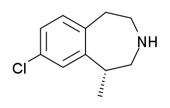 Structure of the 5-HT2C receptor agonist lorcaserin.